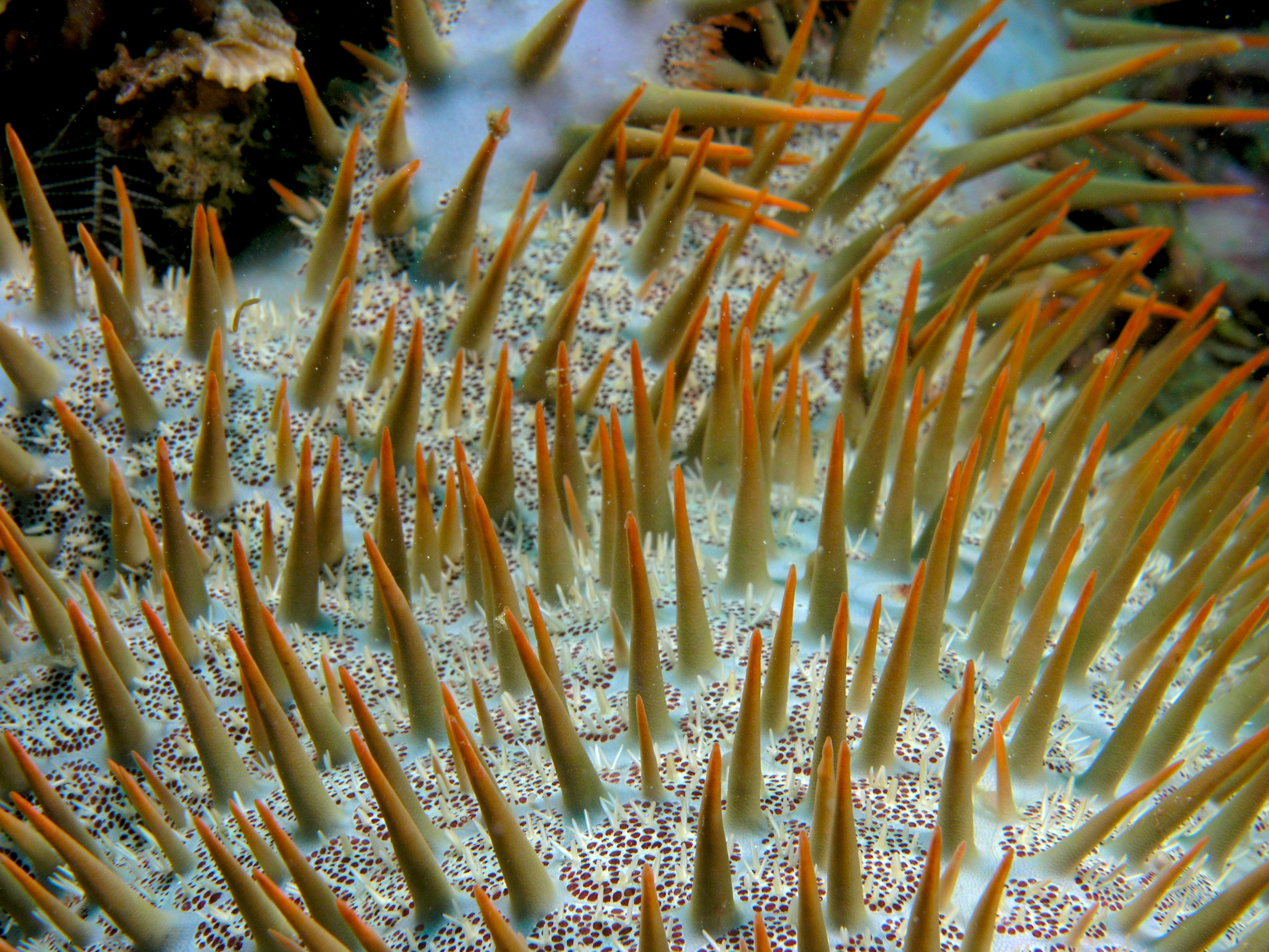 Acanthaster planci (Crown of thorns starfish) spines up close